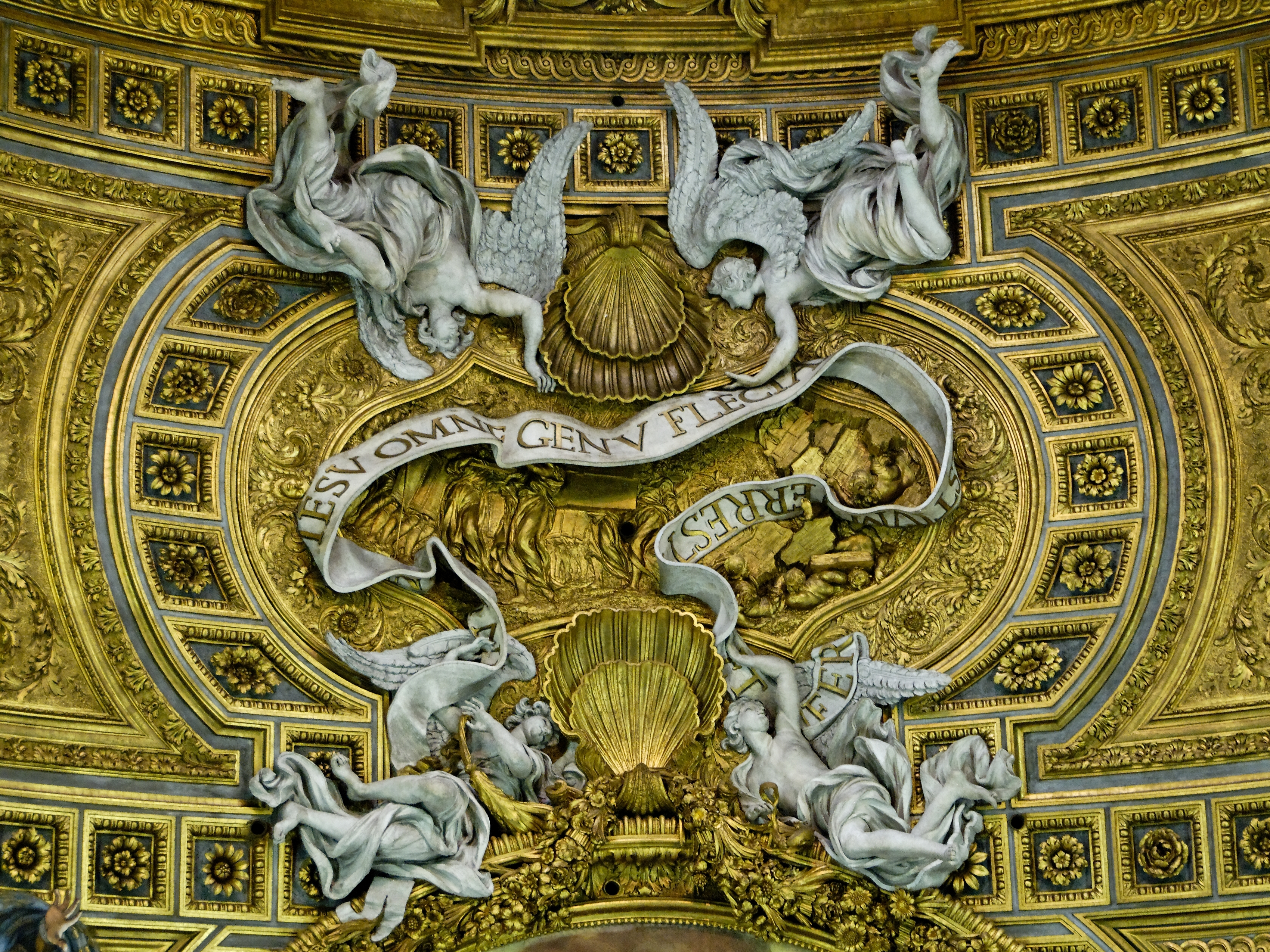 Cartel with the inscription "Ut in nomine Jesu omne genu flectatur coelestium, terrestrium et infernorum" ("that at the name of Jesus every knee should bow, of things in heaven, and things in earth, and things under the earth" Philippians 2:10) by Antonio Raggi and Leonardo Retti after a design by il Baciccio. Vault of Gesù, Rome.